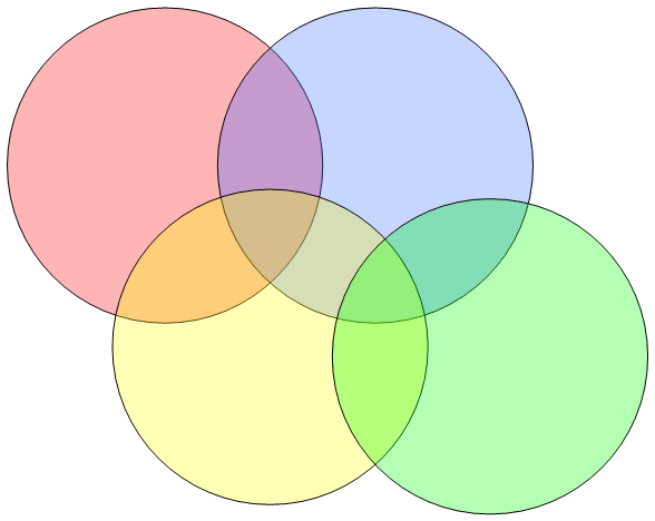 A set of four overlapping circles.